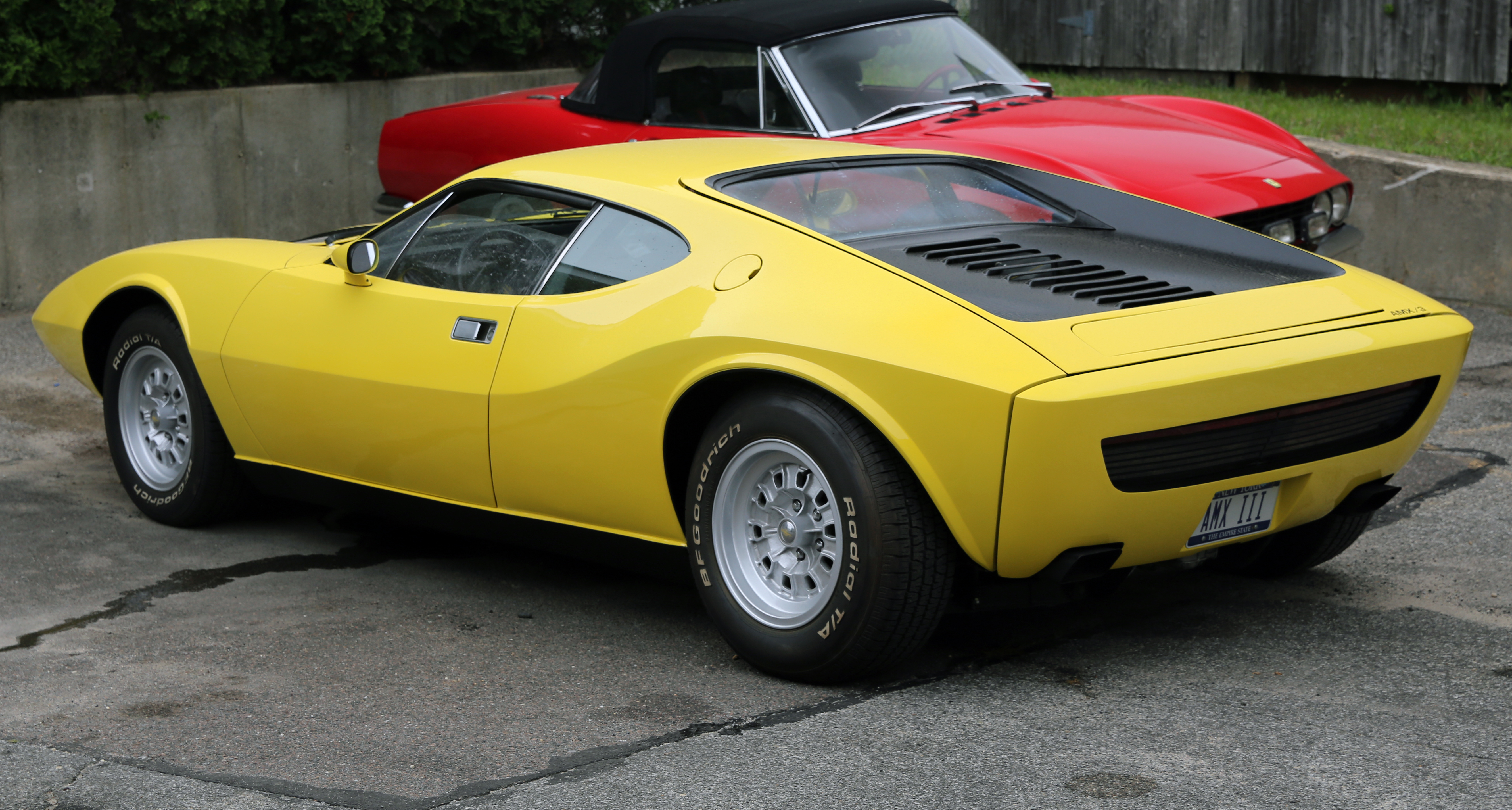 Rear left view of the 1970 AMC AMX/3 concept car #5. Registered as a Javelin! Four-barrel 390ci V8 engine with 325hp. This particular car originally had round Fiat taillights; AMC chief designer Dick Teague didn't like them and replaced them with a unique rear panel using Pontiac Firebird units mounted upside down.